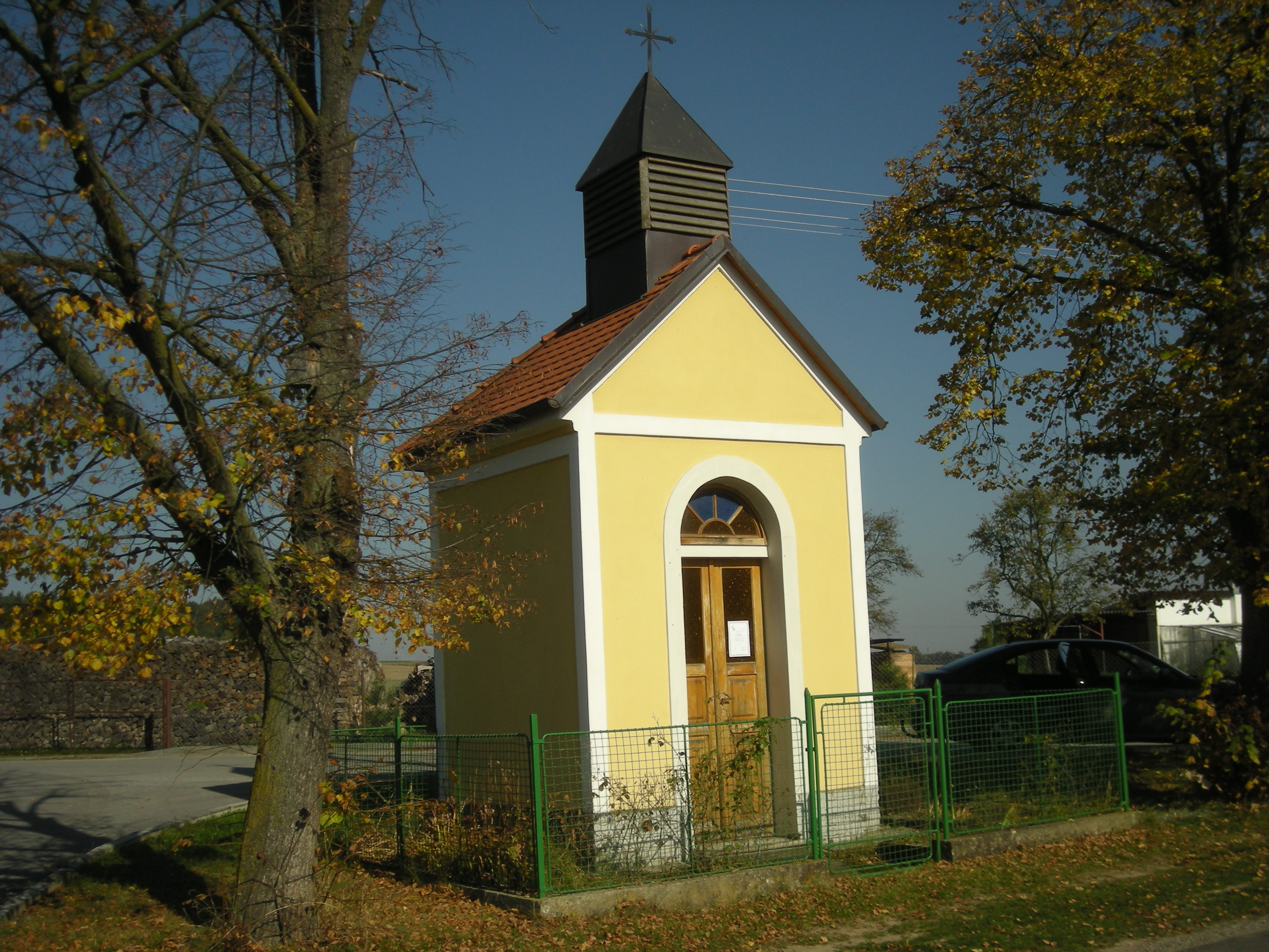 A chapel in Malovičky, South Bohemia, Czech Republic.